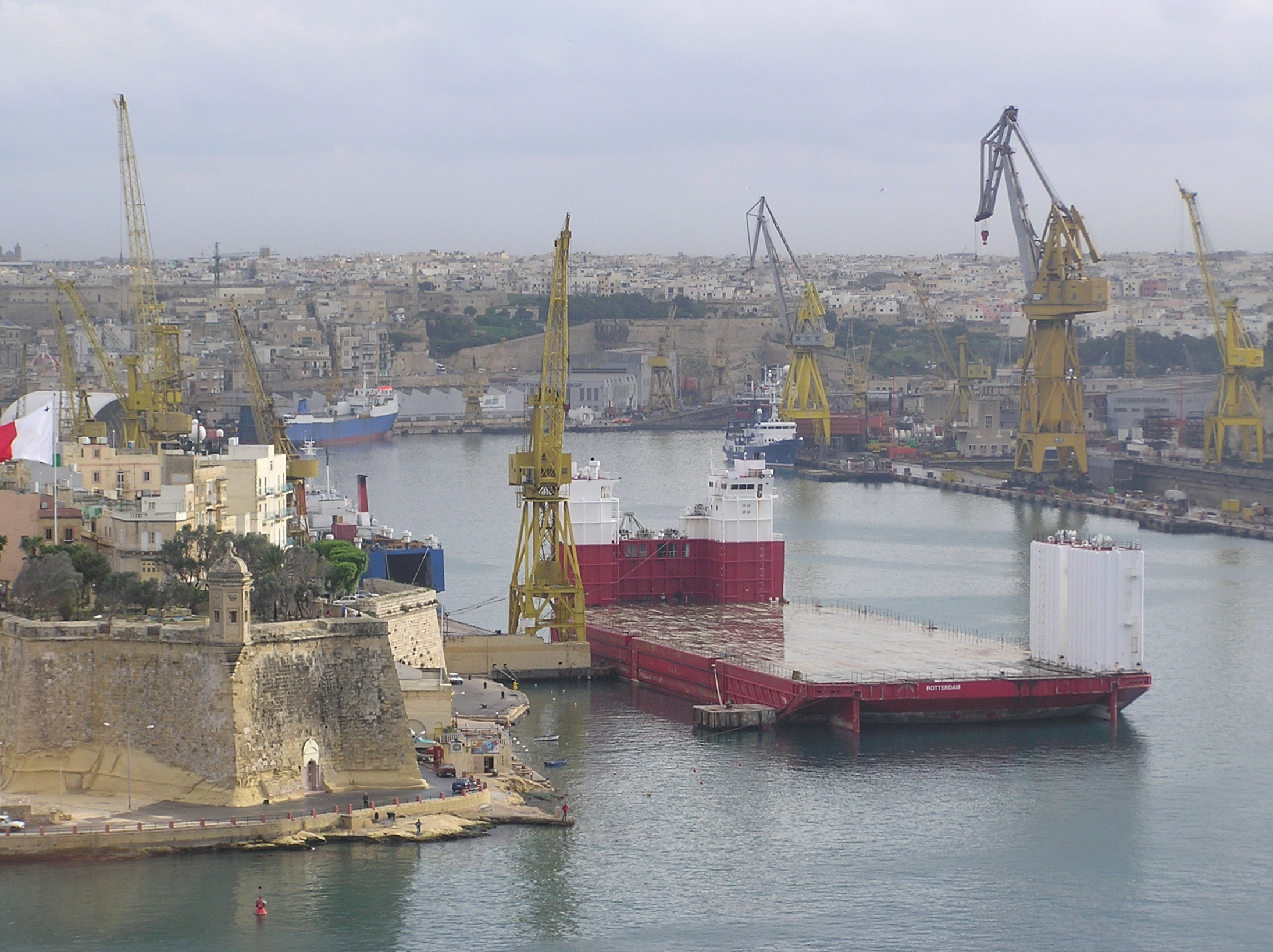 Semi-submersible heavy lift ship (SSHL) in the harbour of Valetta, Malta